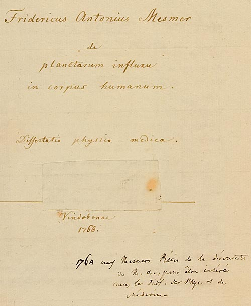 Manuscript of De planetarum influxu in corpus humanum by Franz Mesmer; Vienna